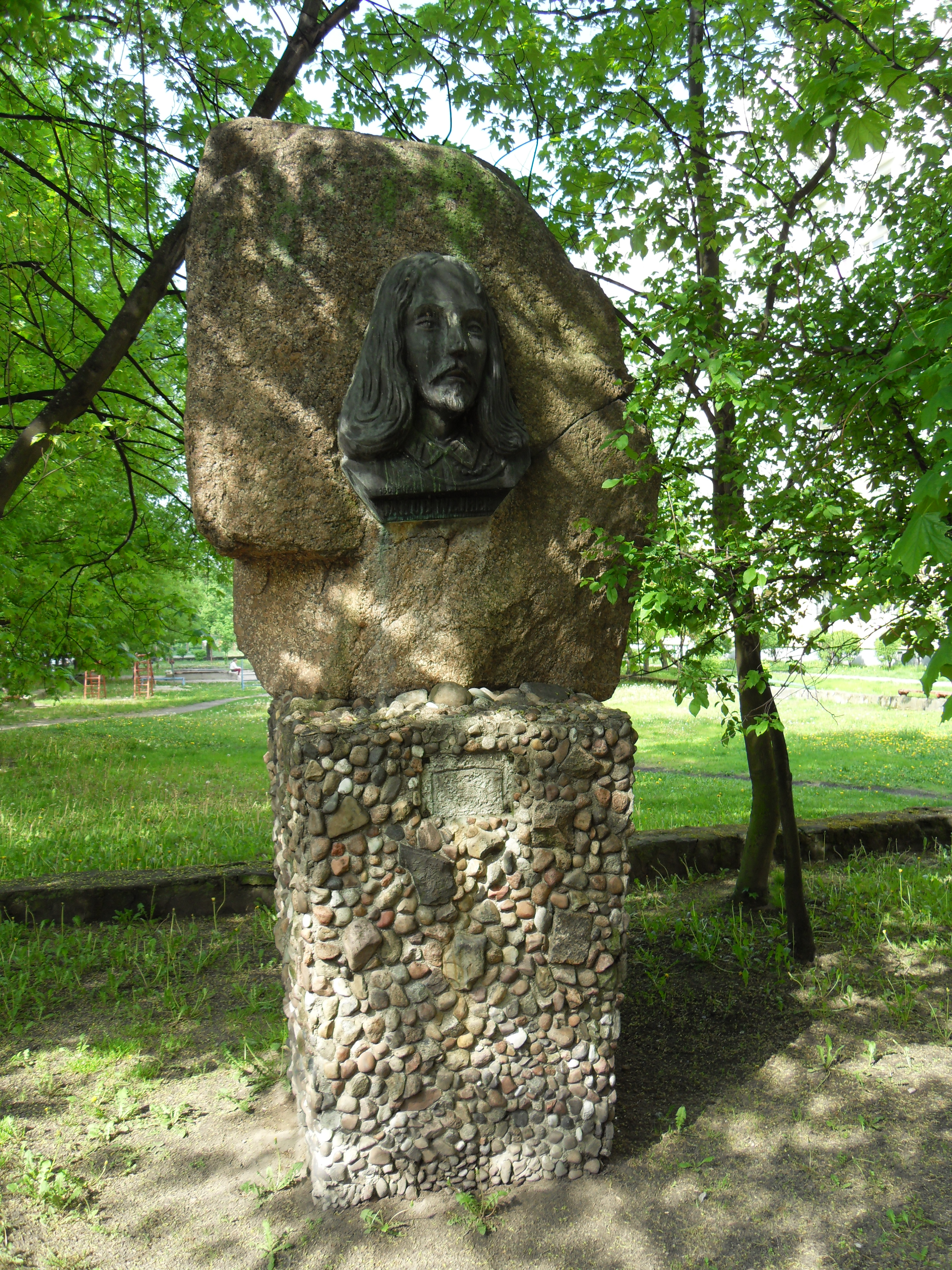 A monument to Jakub Wejher in Gdańsk Żabianka (Poland).